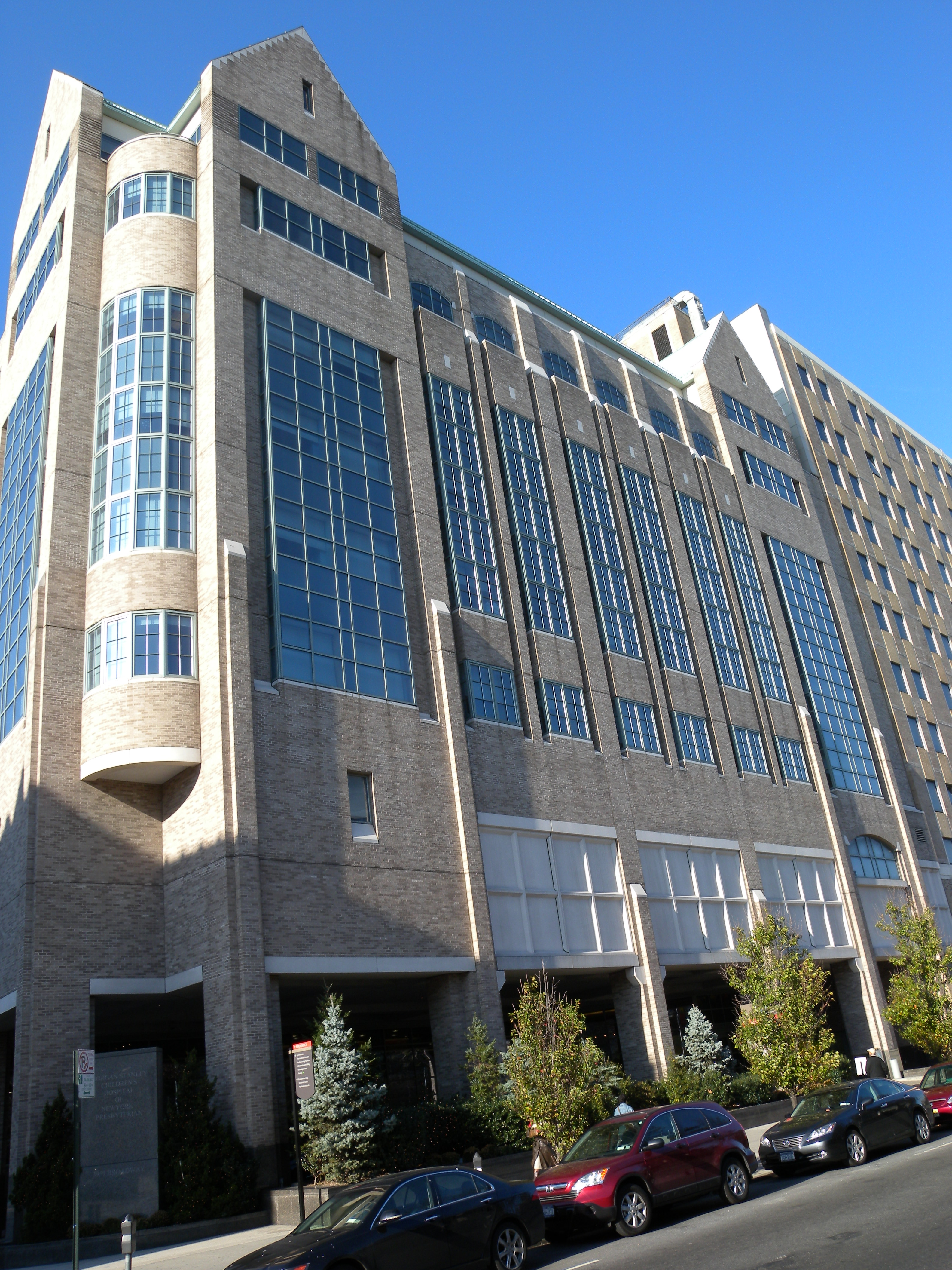 Looking north across Broadway and 165th Street at NewYork-Prespetyrian Hospital on a sunny midday.